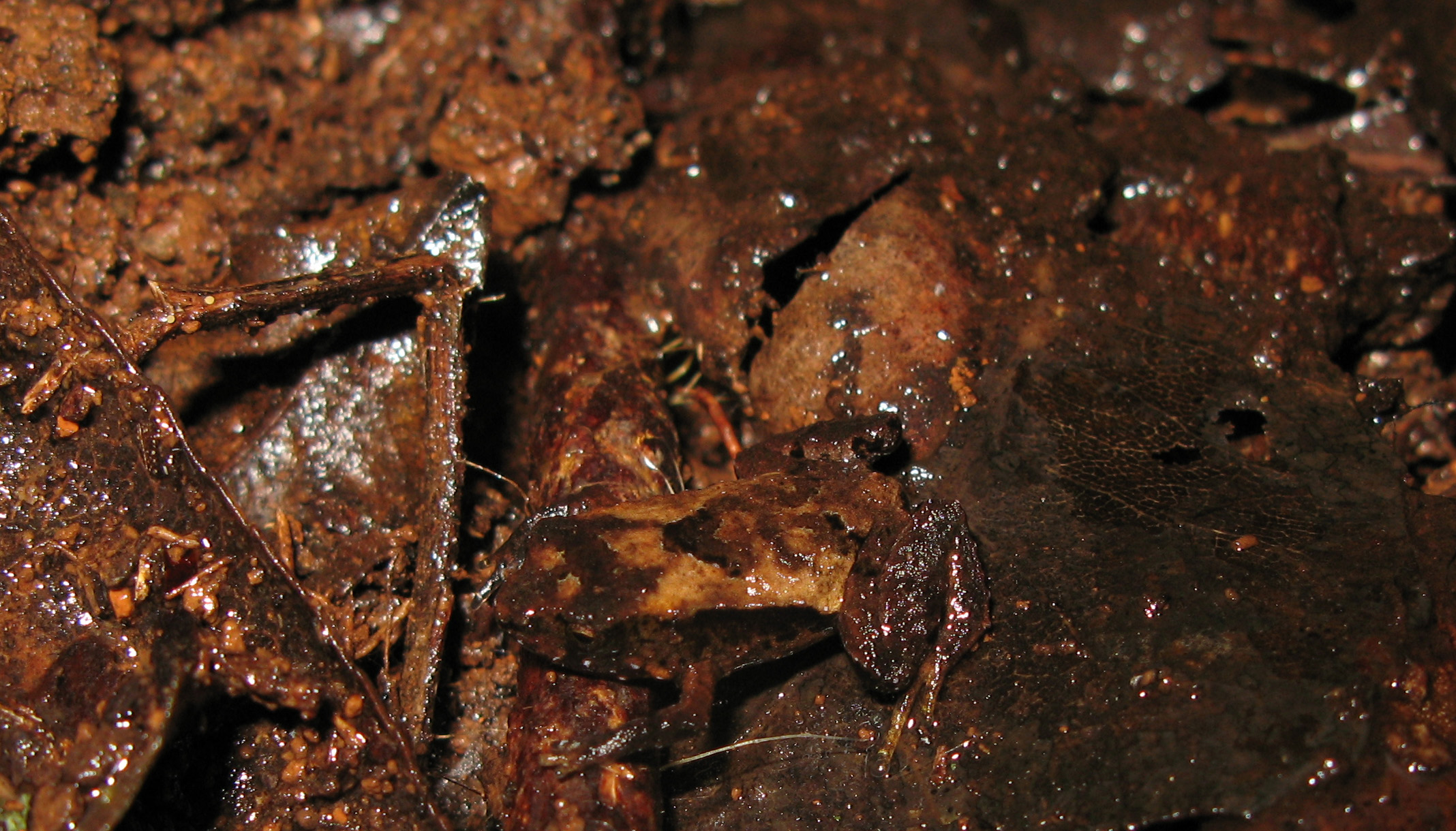 A Hip-pocket Frog (Assa darlingtoni) camouflaged in leaf litter.